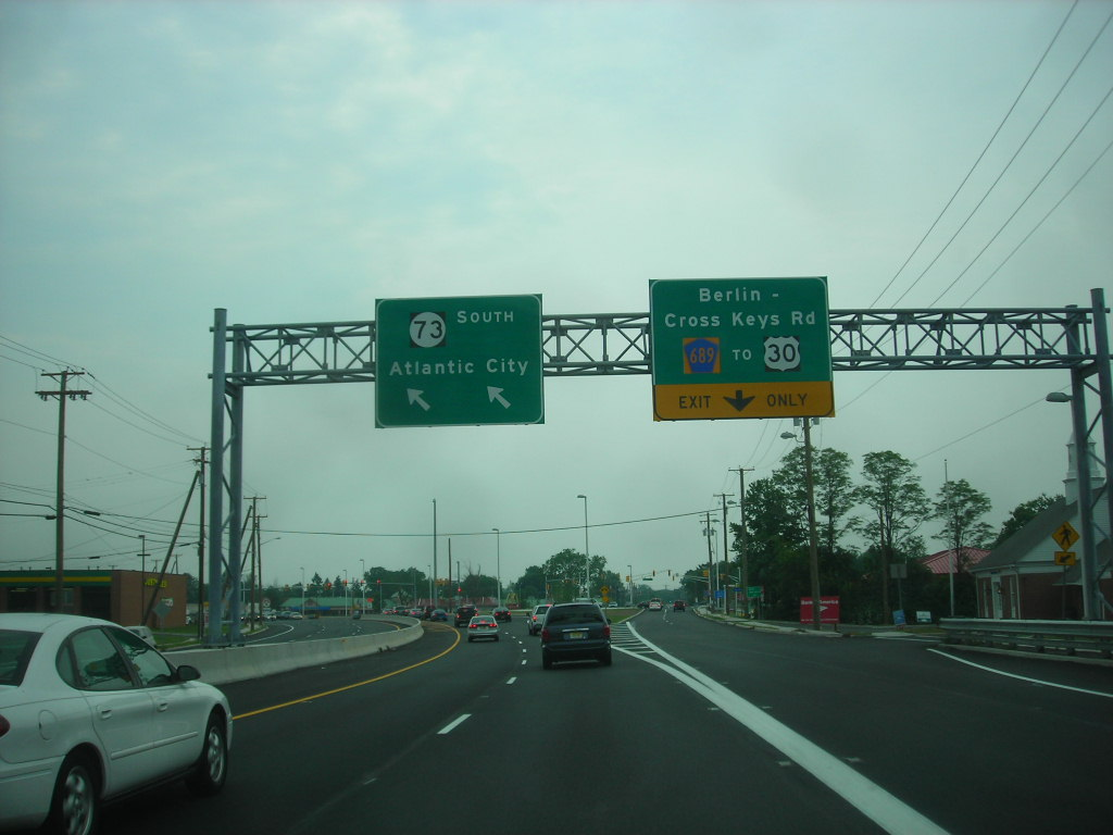 Approaching the former Berlin Circle, on Route 73 south.